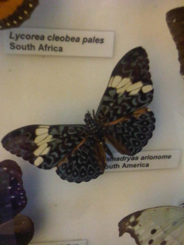 Hamadryas arinome at the National Museum of Natural History, Vilhena Palace, Republic of Malta.